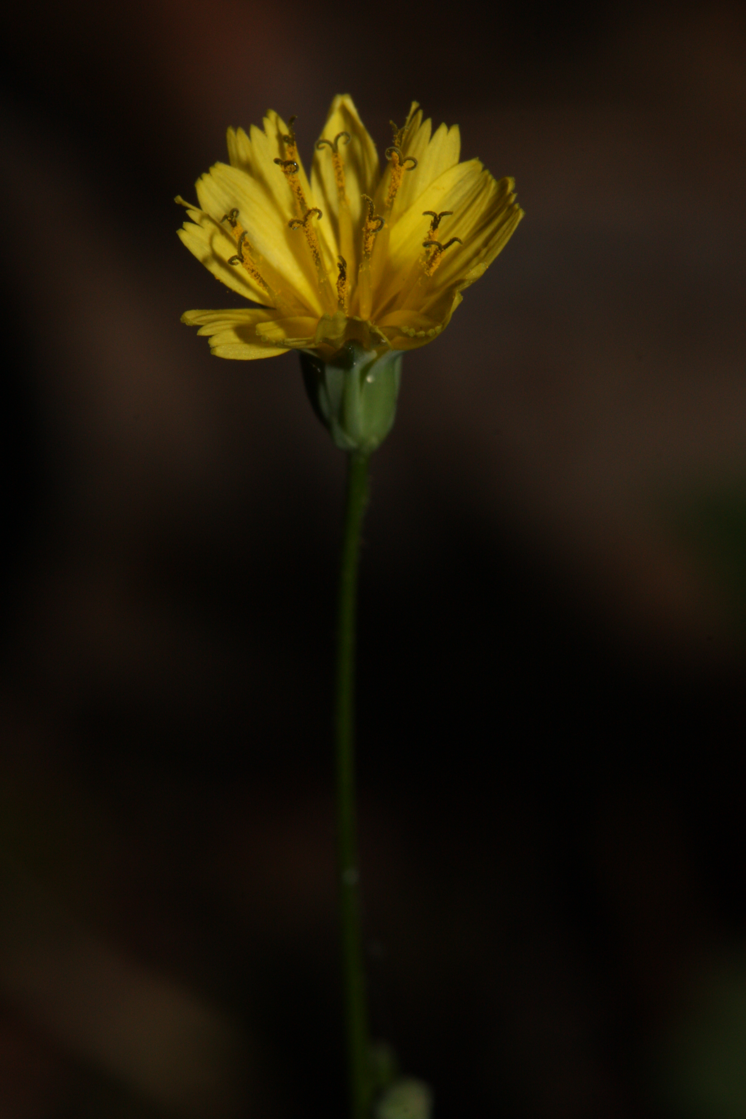 Common Nipplewort